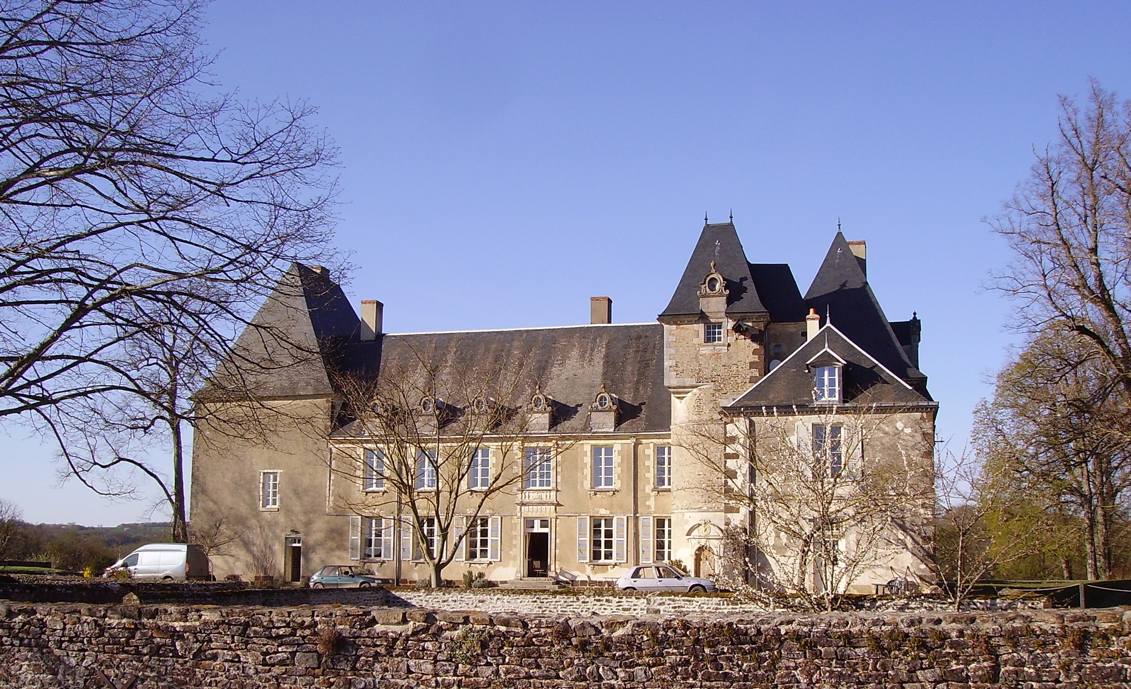 Château de La Vallée in Assigny, Cher, dating from the sixteenth century.